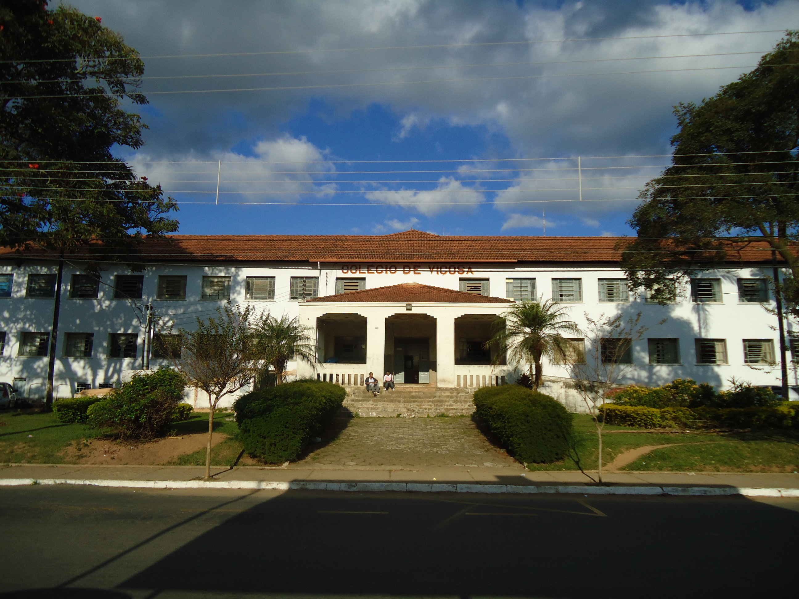 School of the Viçosa